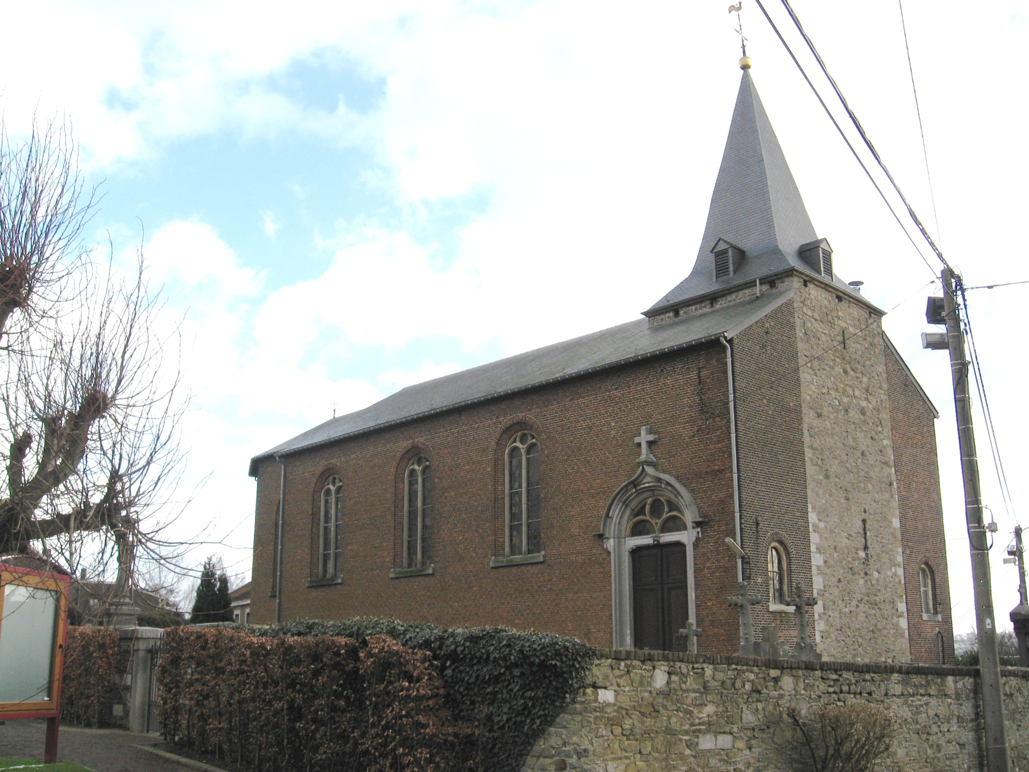 Church of Saint Andrew in Saint-André, Dalhem, Liège, Belgium